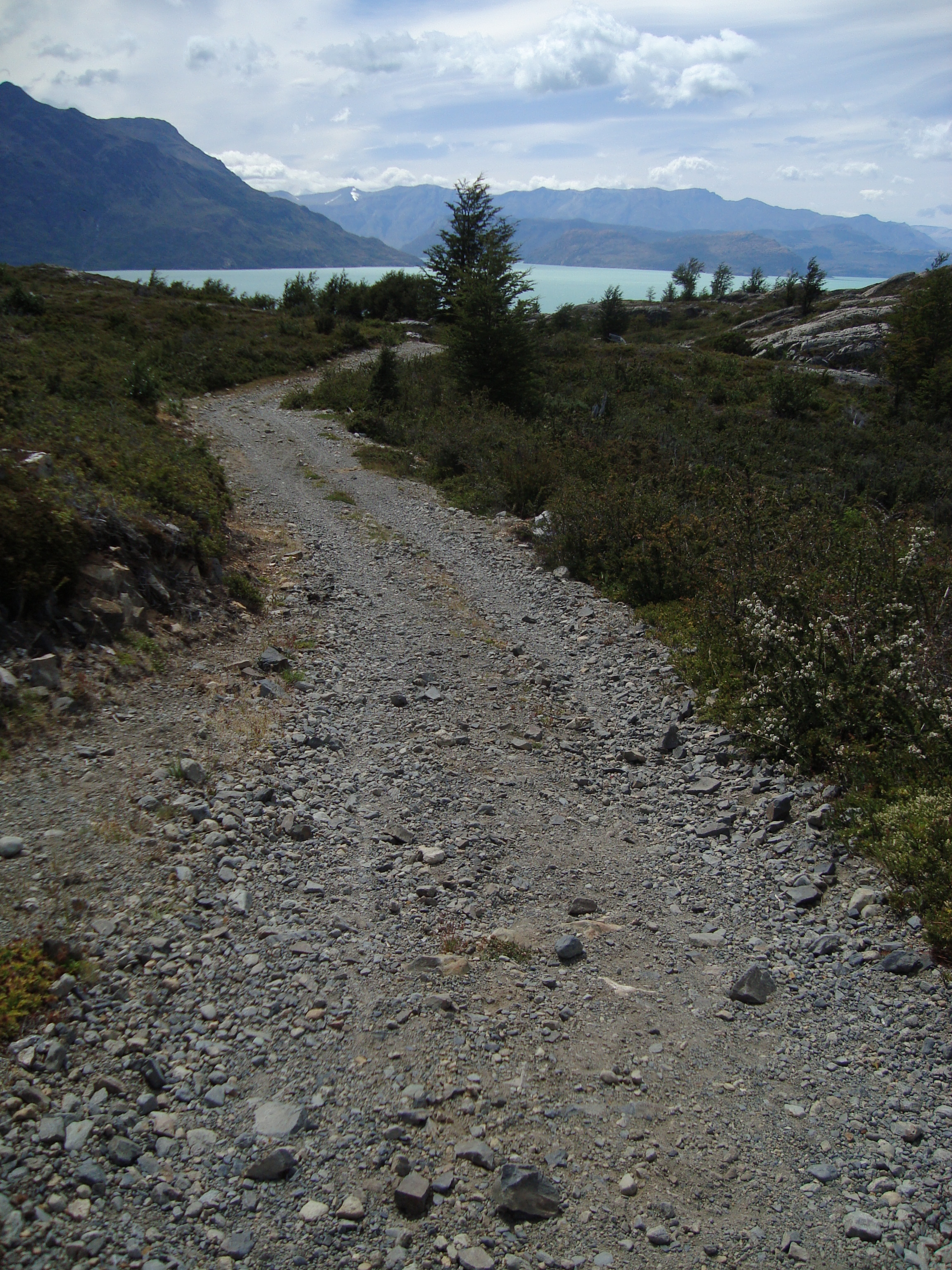 Surprisingly, even with fully-loaded pack, I was able to ride most of the way up to the border. This rocky stretch was one notable exception. The really tricky bit was on the Argentine side later...